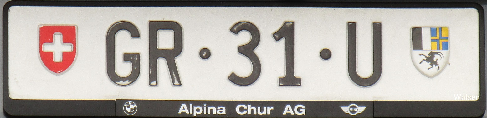 Swiss dealer plate